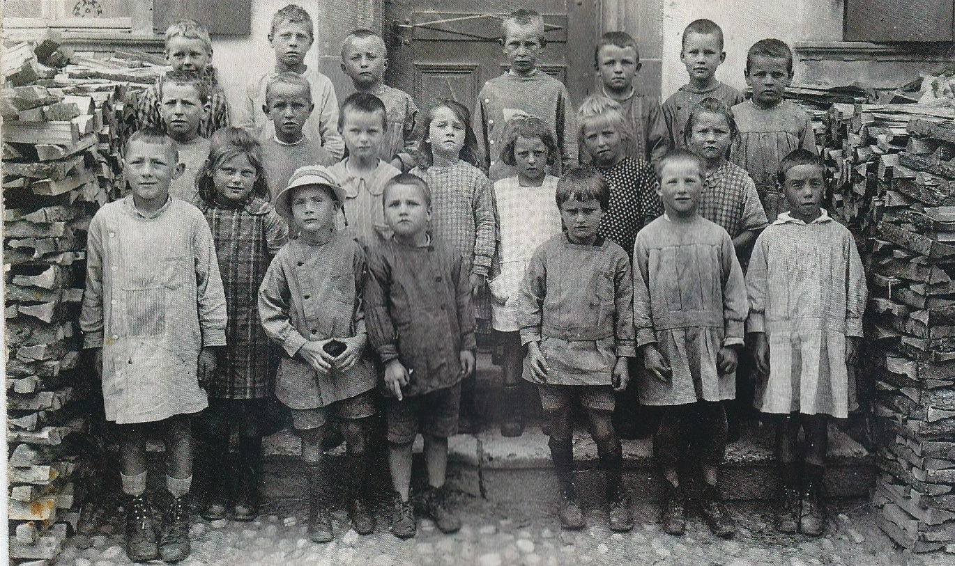 Class photography from Ms Dessauges at the elementary school of Hermenches around 1930